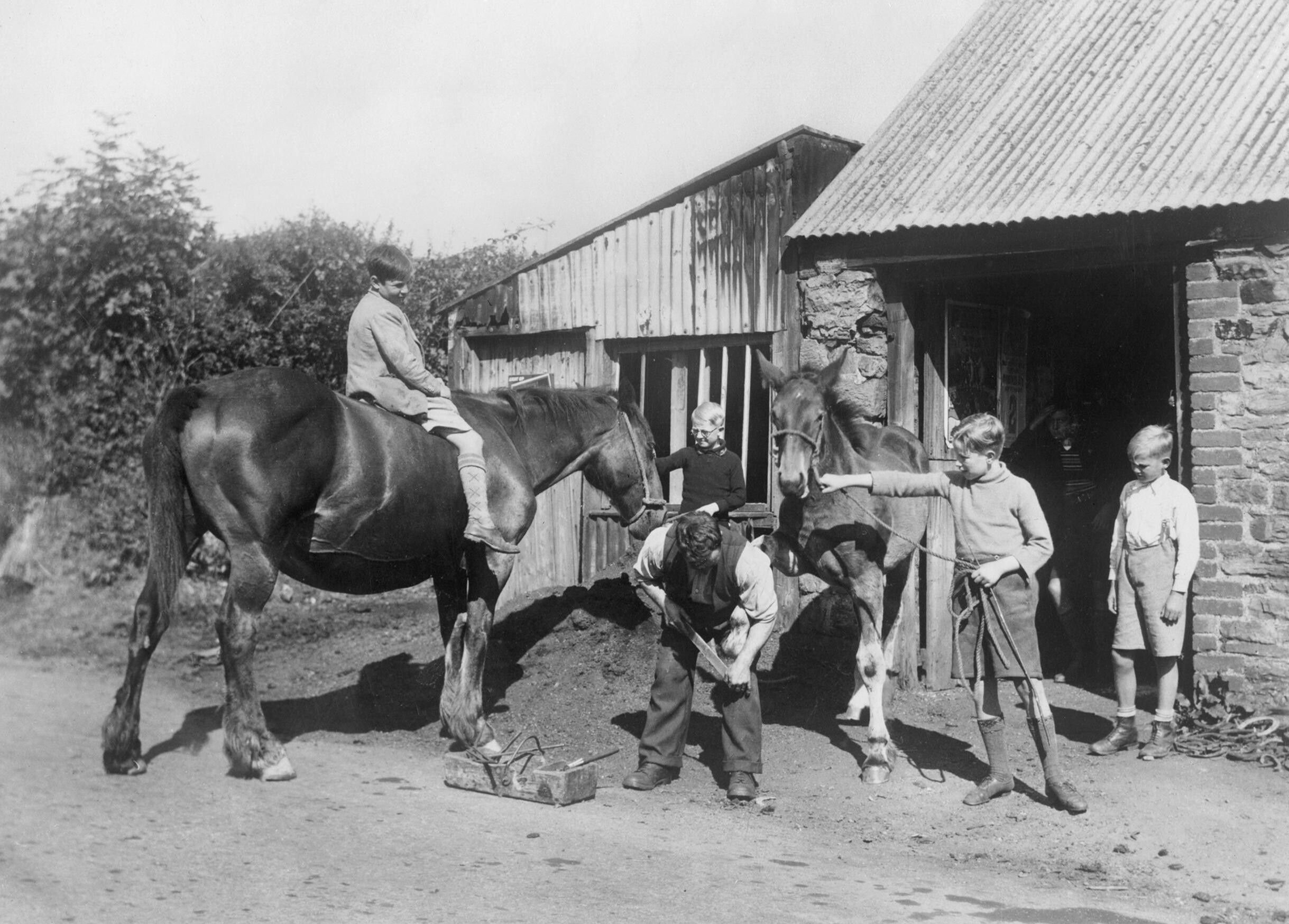 Evacuees From London in Pembrokeshire, Wales, 1940 Boys from Creek Road LCC School in Greenwich, London, bring horses in for shoeing and help the blacksmith whilst evacuated to the Llandissilio district of Pembrokeshire, Wales in 1940. Note that the blacksmith is filing the hoof of the horse on the right hand side of the photograph as one of the evacuees hold the horse steady.